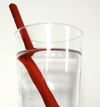 Sylvain Breton, Red Tornado, 2007, Performativity Concept, Pencil in a glass of water, 201cm x 152cm. Physic laws facing the rational mind for an easthetics of possibilities and impossibilities.